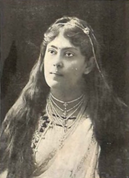 Sarala Devi Chaudhurani (1872-1945), was an Indian feminist, social worker and patriot.